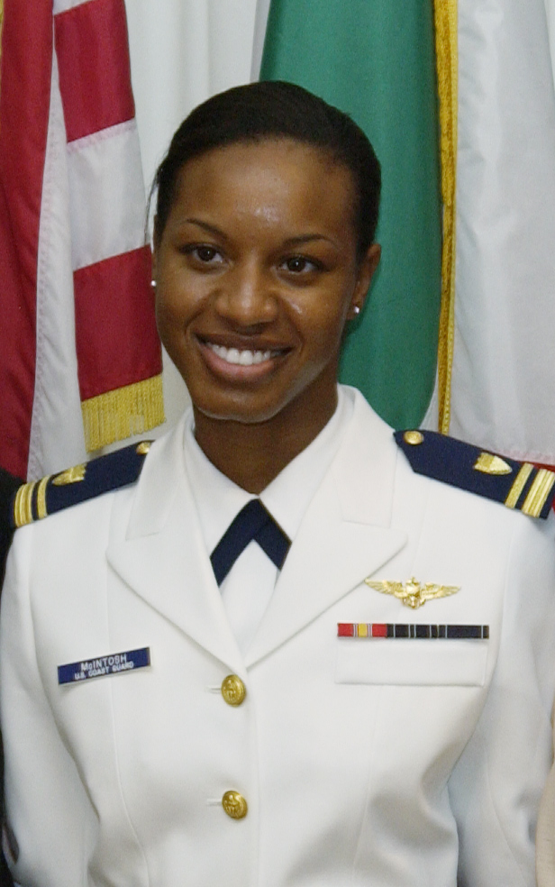 Coast Guard Lieutenant (Junior Grade) Jeanine McIntosh, USCG